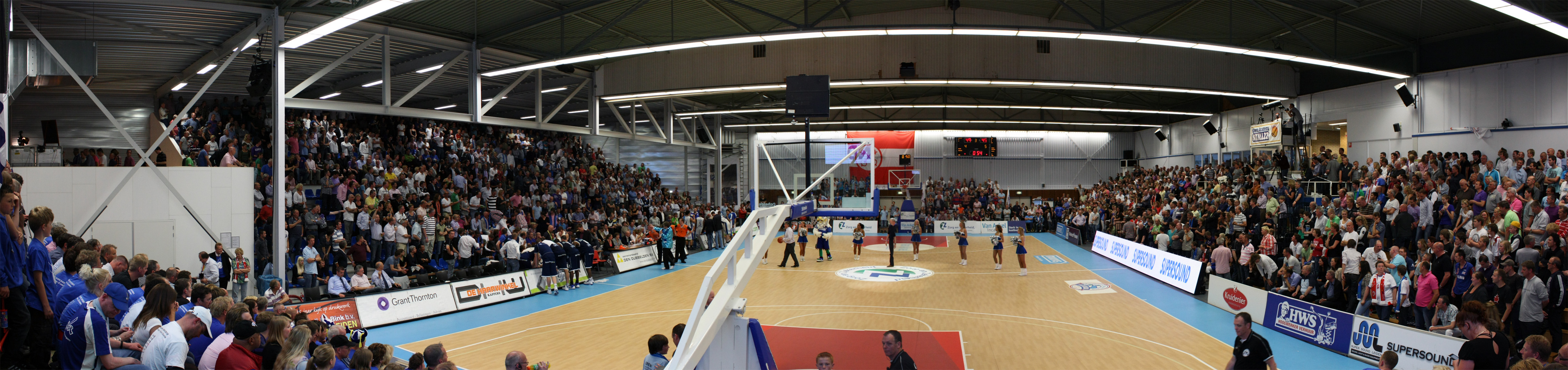 Panorama inside the "Vijf Meihal", home of ZZ Leiden